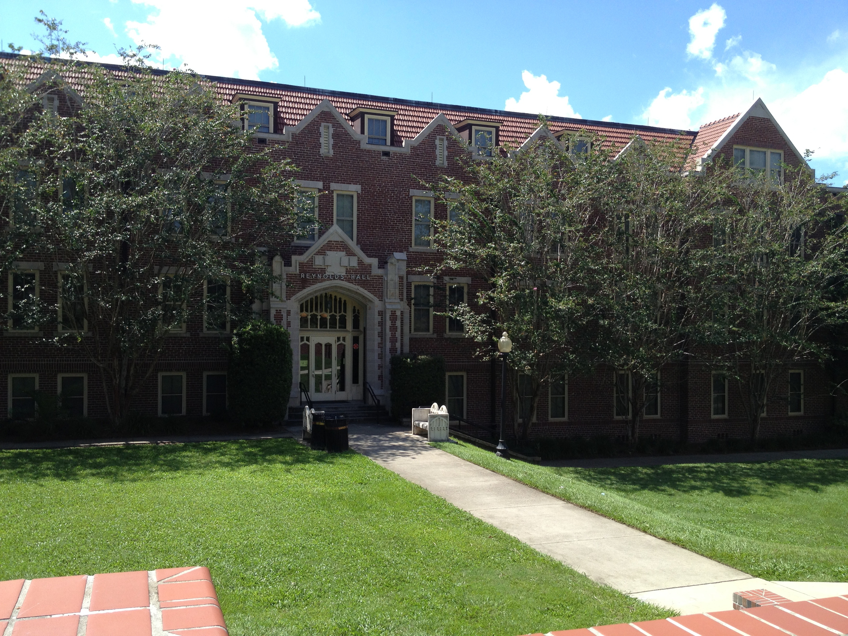 Reynolds Hall FSU